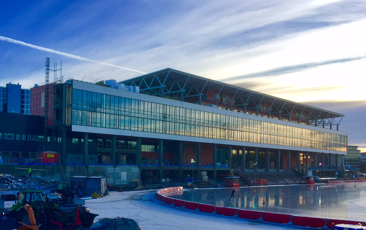 Valle Hovin vgs under construcion part 2